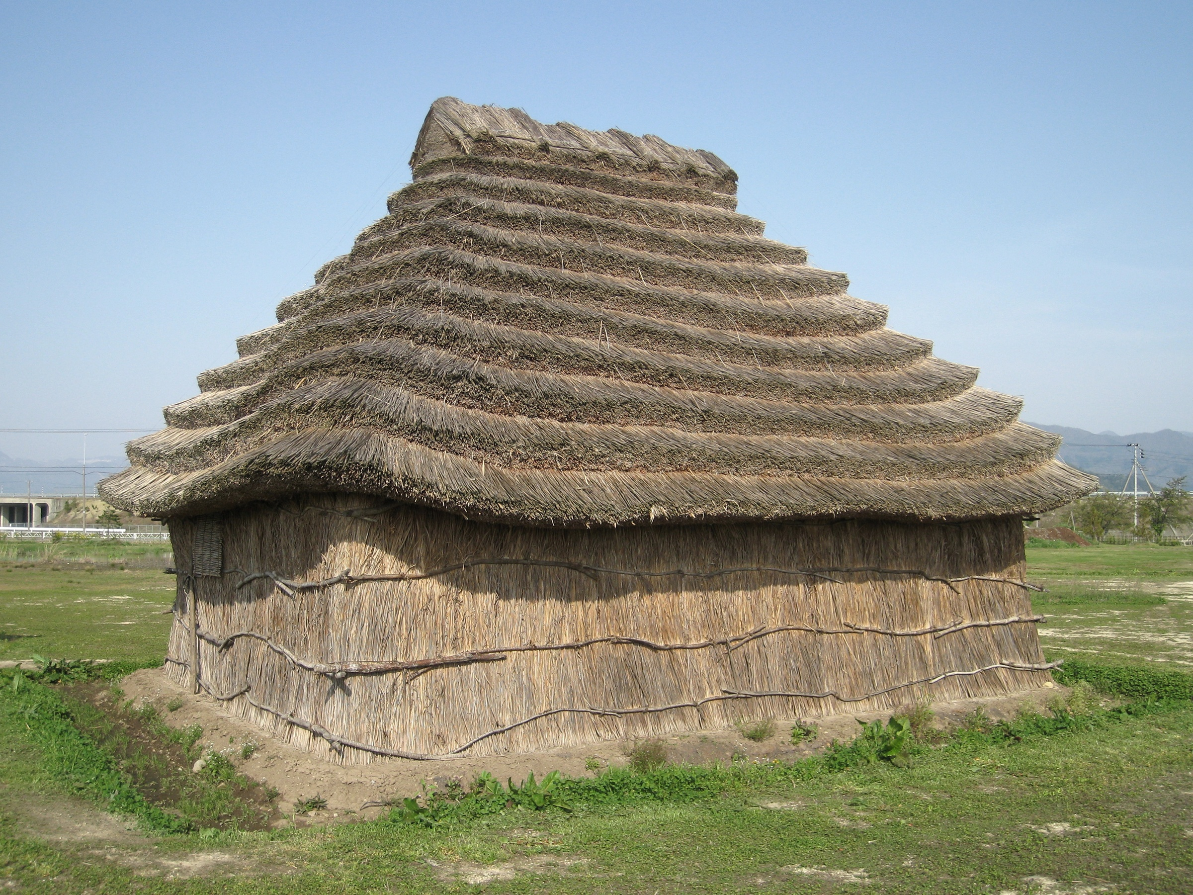 House No. 10 of Tendo City Nishinumata Site Park, This Photo Taken in May 2, 2009